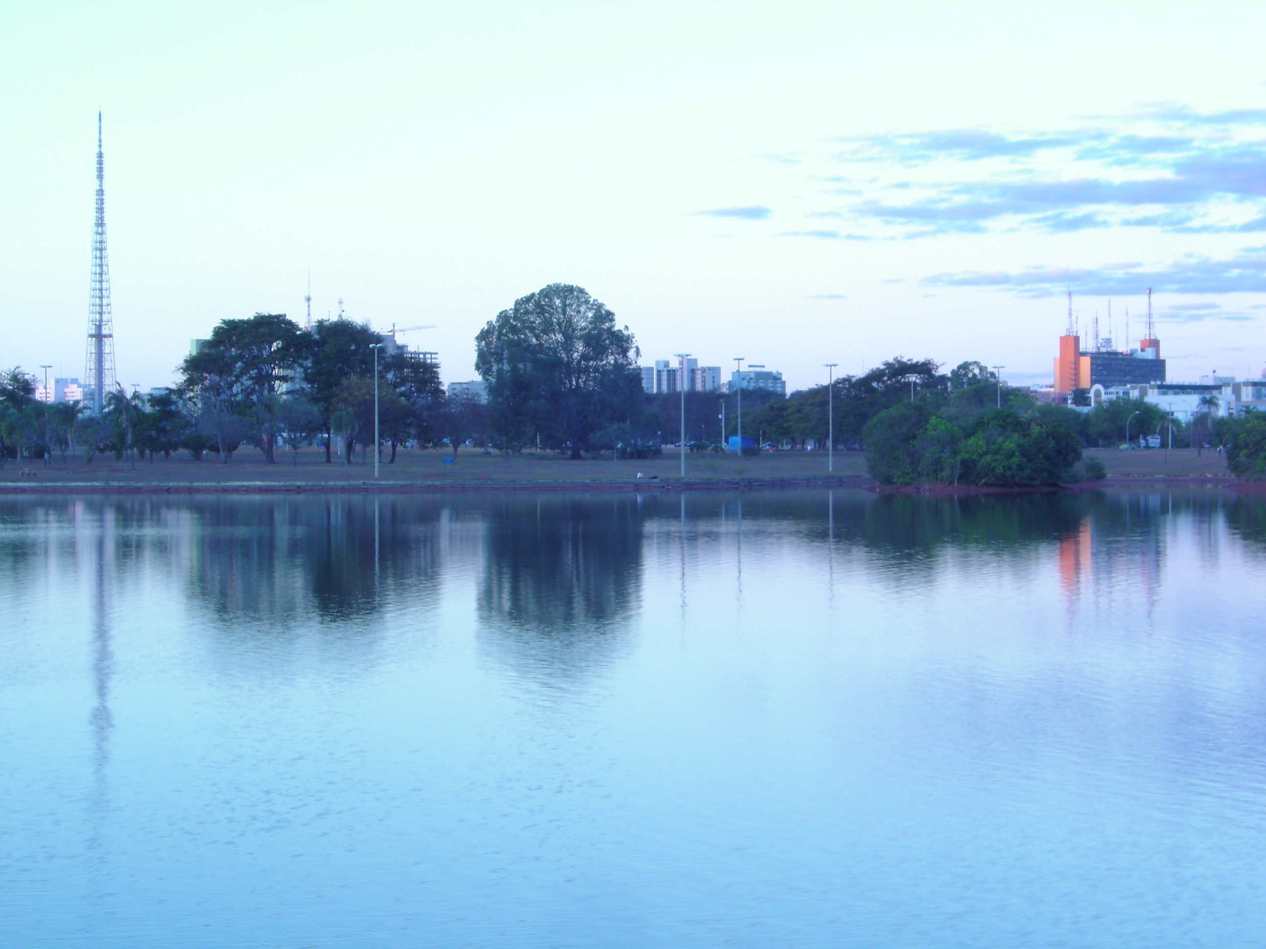 Sight of Brasilia from Park Sarah Kubitschek with the TV Tower to the left and some commercial buildings to the right.